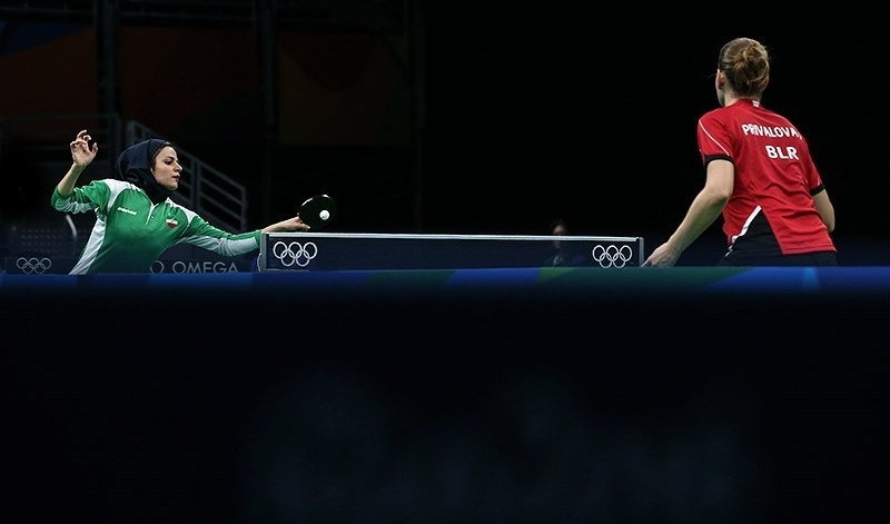 2016 Summer Olympics table tennis